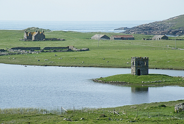 Scolpaig